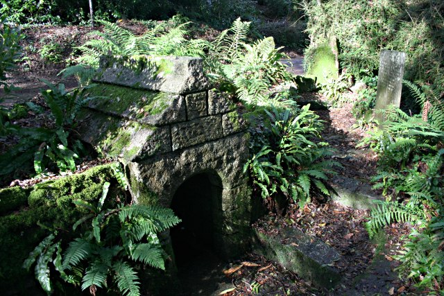 St Keyne Holy Well "The quality, that man and wife Whose chance, or choice, attaines First of this sacred stream to drinke Thereby the mastery gains." St Kayne's Well by Richard Carew, 1603